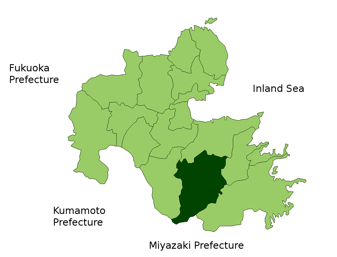 Location Map of Bungo-Ono in Oita Prefecture, Japan